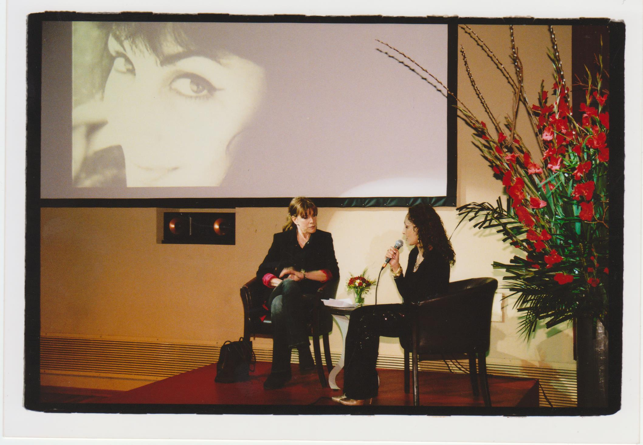 ברוריה במהלך אירוע פרידה מעיתון לאשה